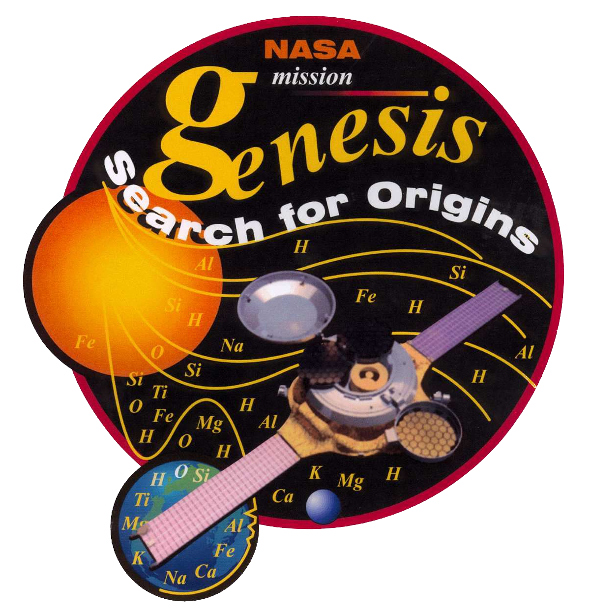 Official mission insignia of the Genesis mission.